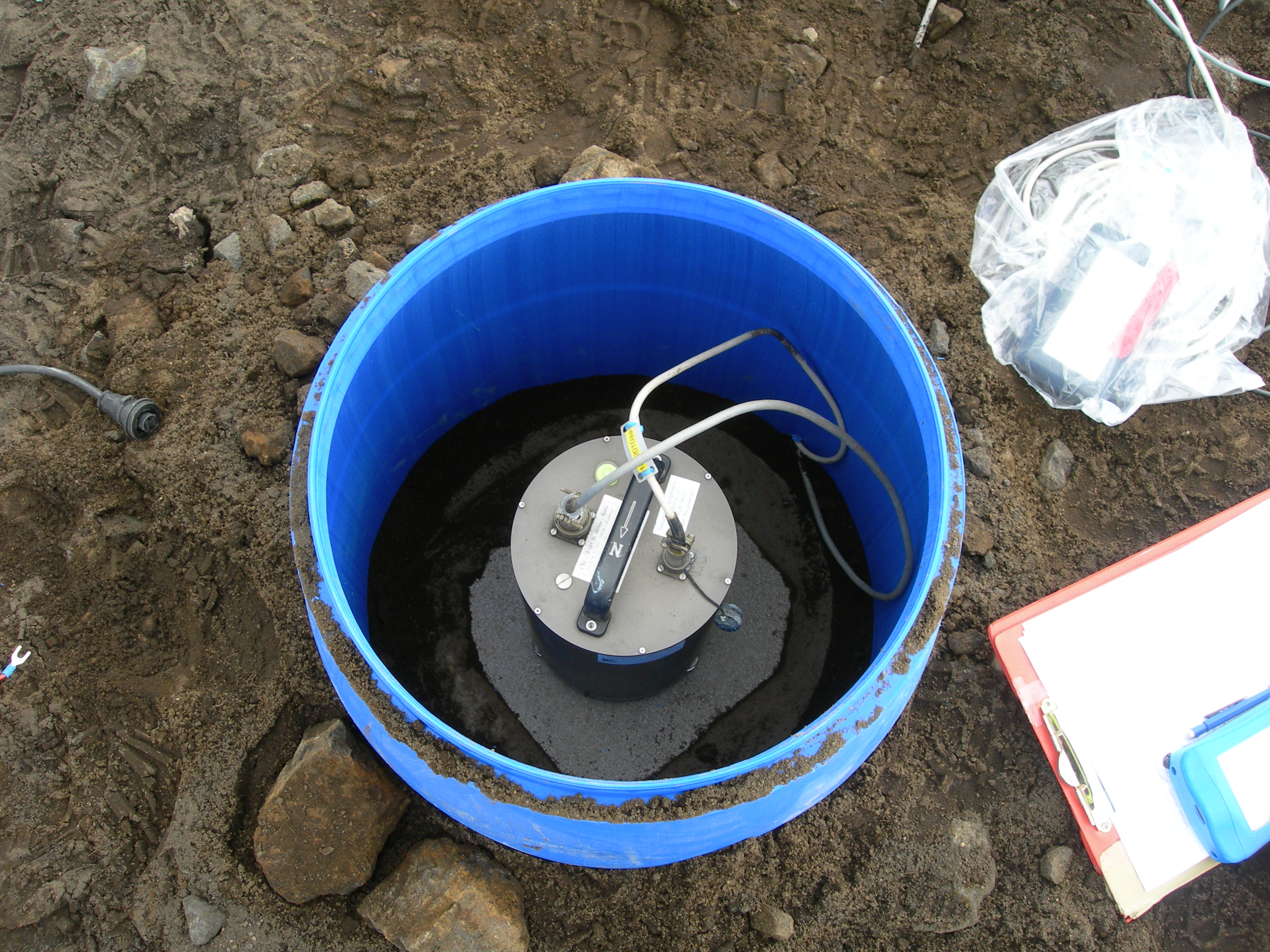 Installation for a temporary seismic station, north Iceland highland, Güralp CMG-3ESP seismometer.